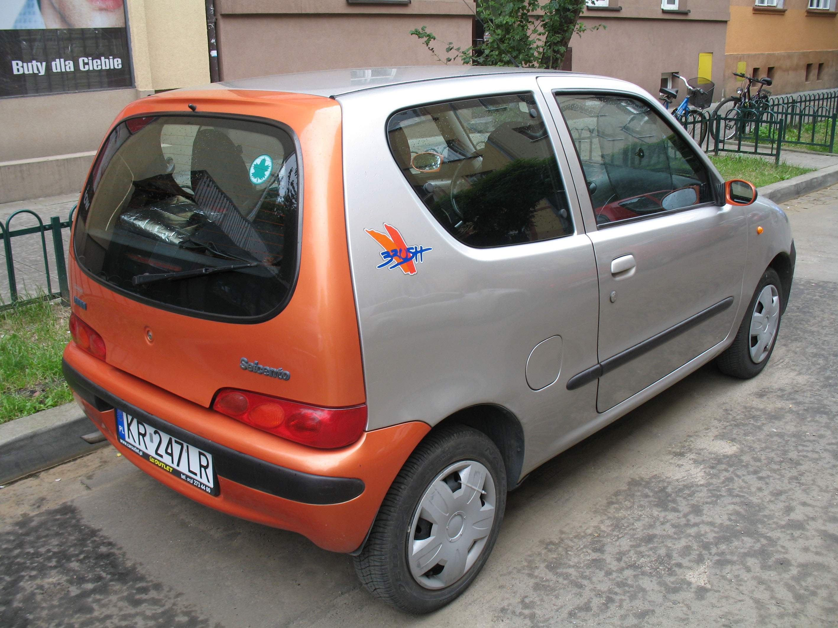 Fiat Seicento Brush car in Kraków, Poland.